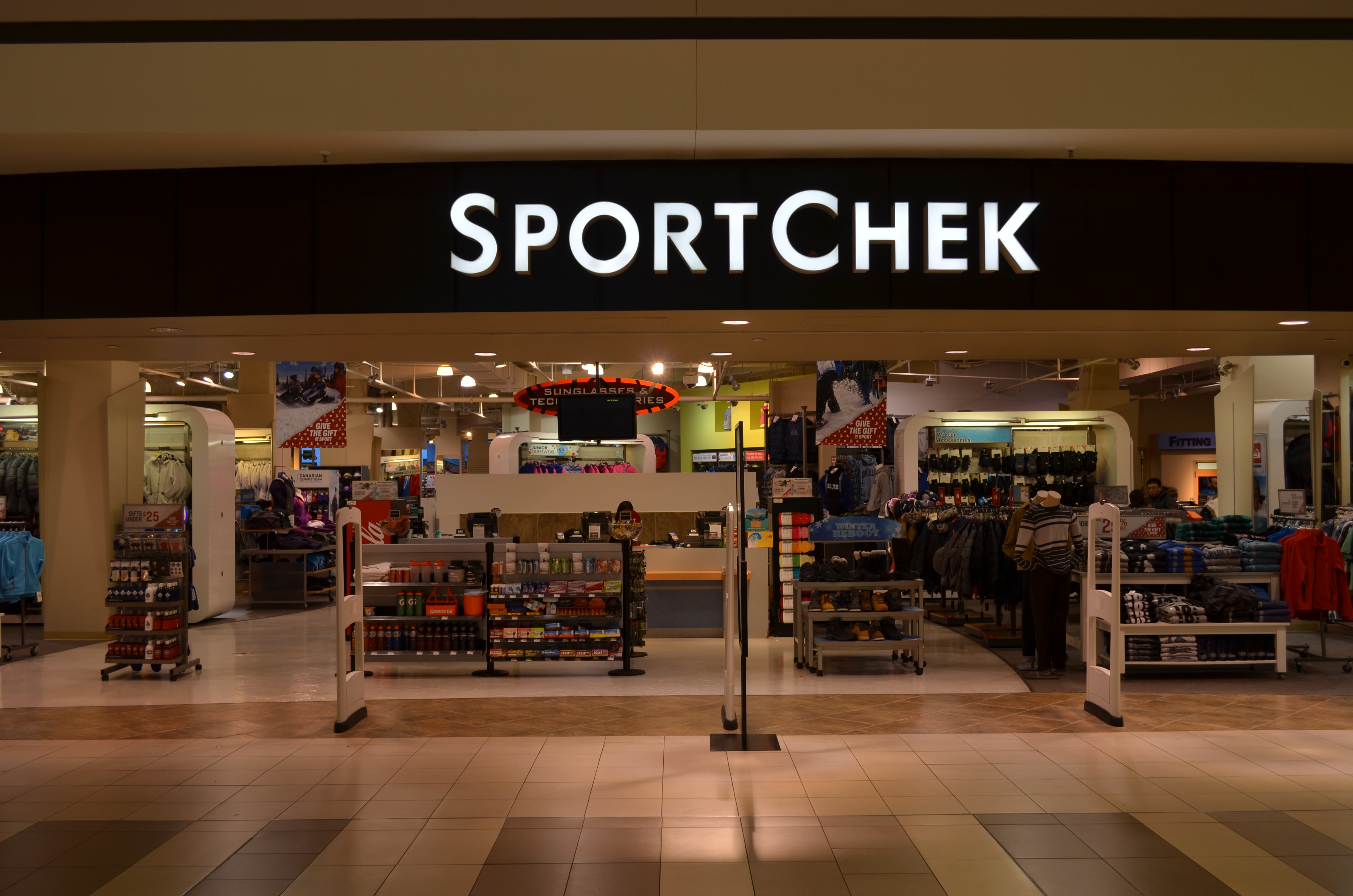 Sport Chek at Promenade